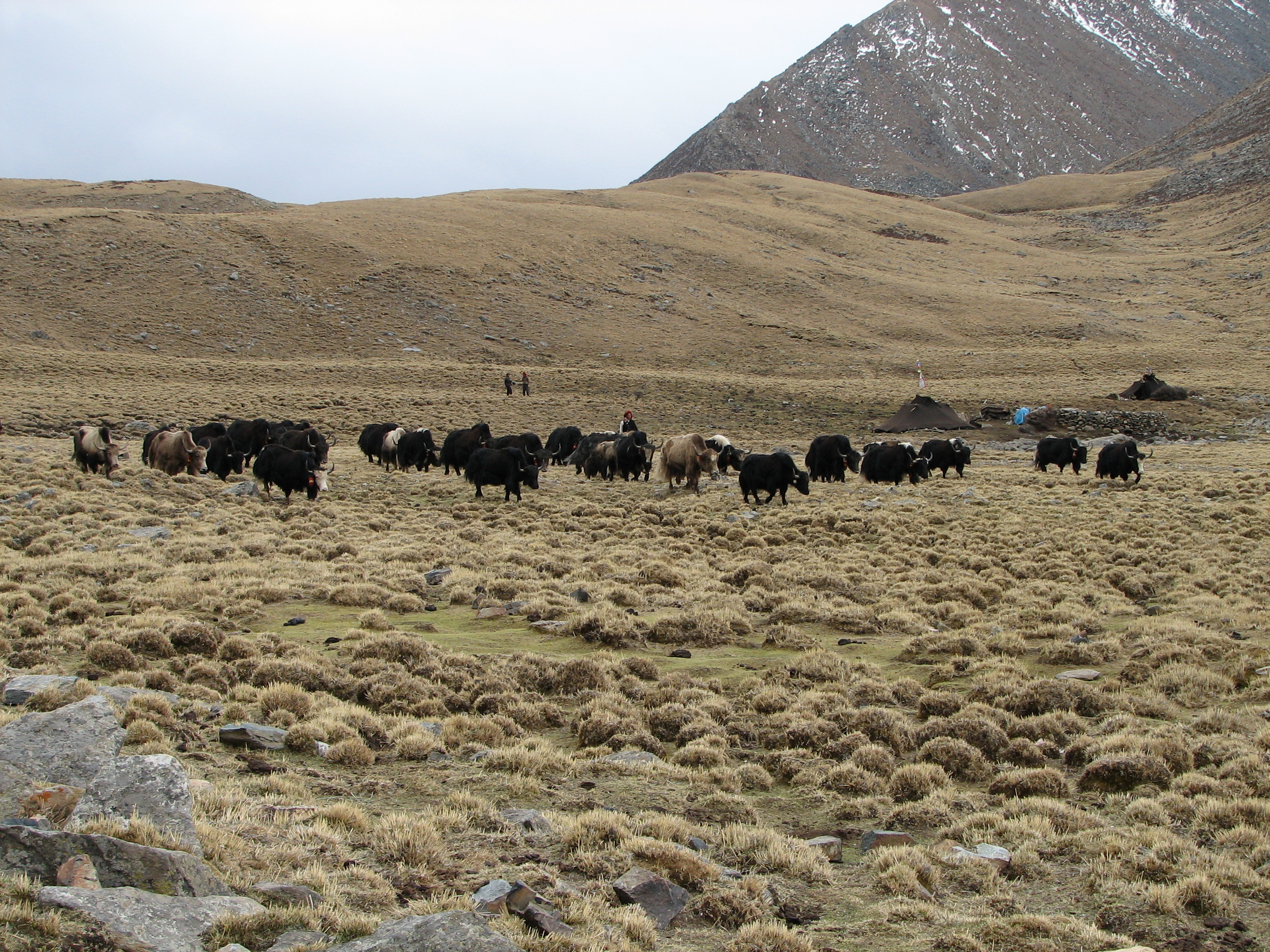 Trekking 4 days from Ganden Monastery to Samye Monastery. Lovely spot to camp on day 2, sharing the valley with a couple families of nomads and their yaks.